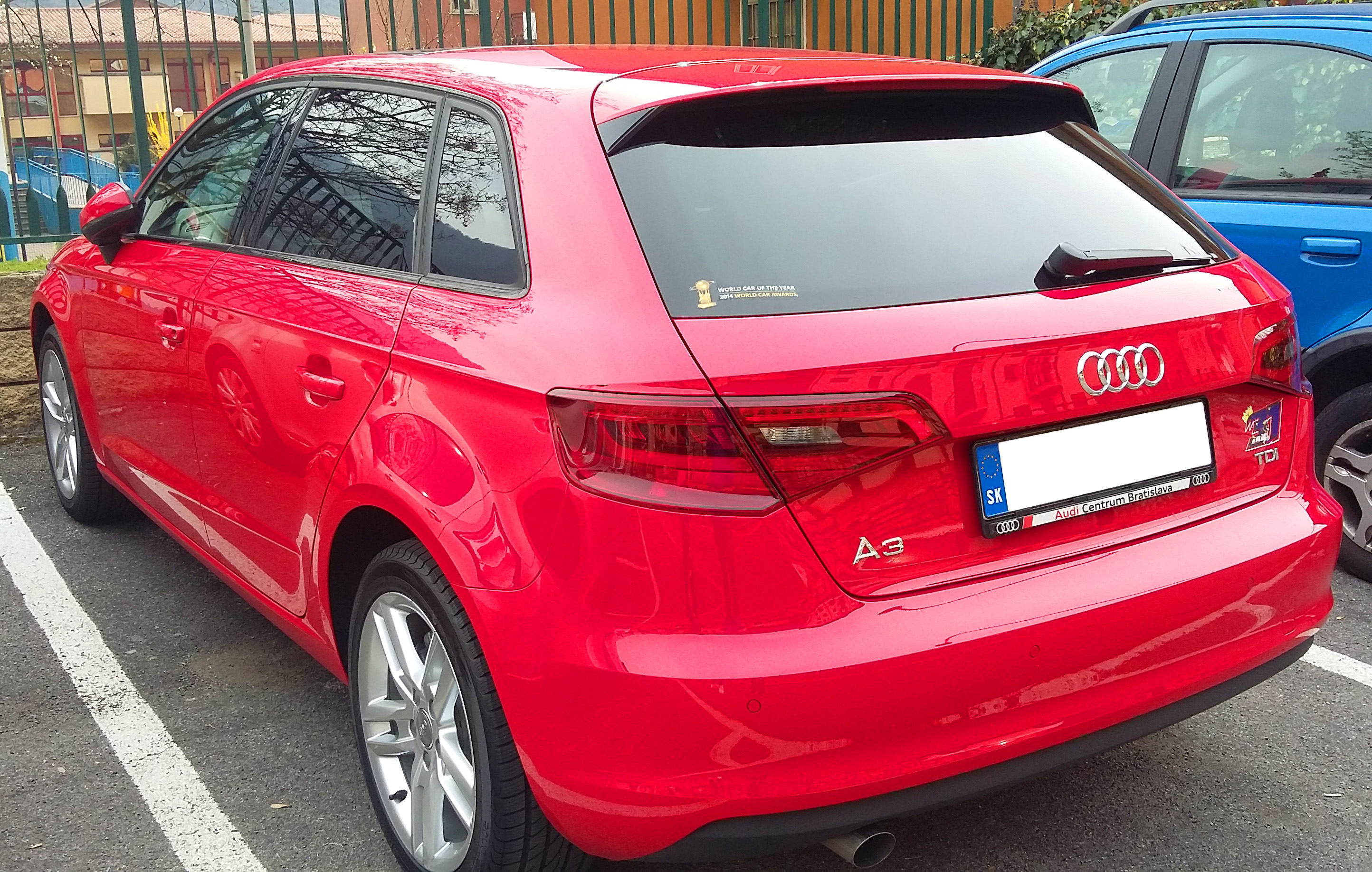 2012-present Audi A3 Sportback